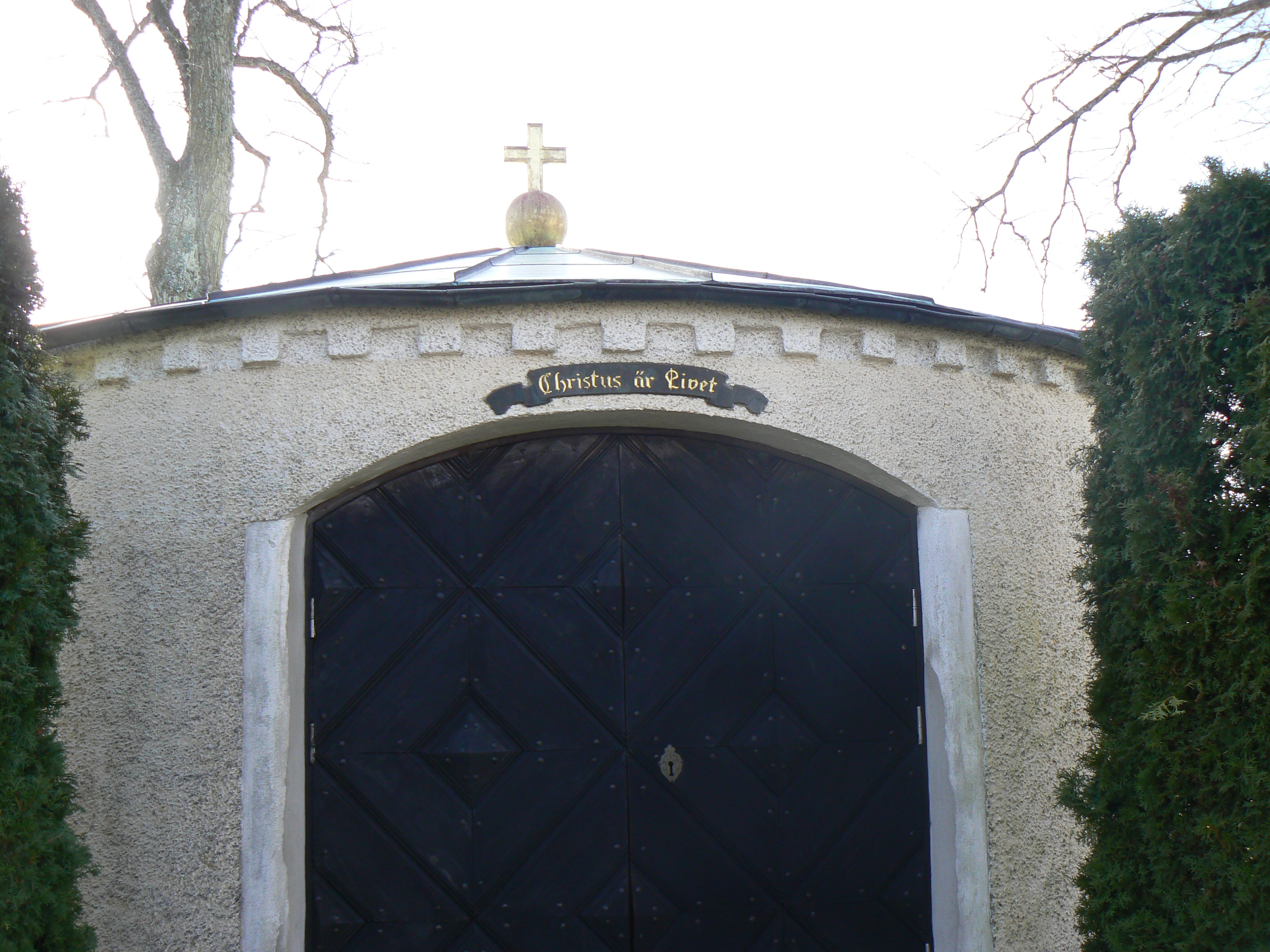 The burial chapel at Rappestad church in Sweden. Photo by Skvattram 2007-03-18.